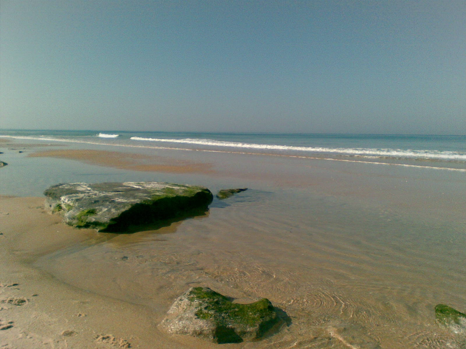 Nitsanim Beach, Geography of Israel